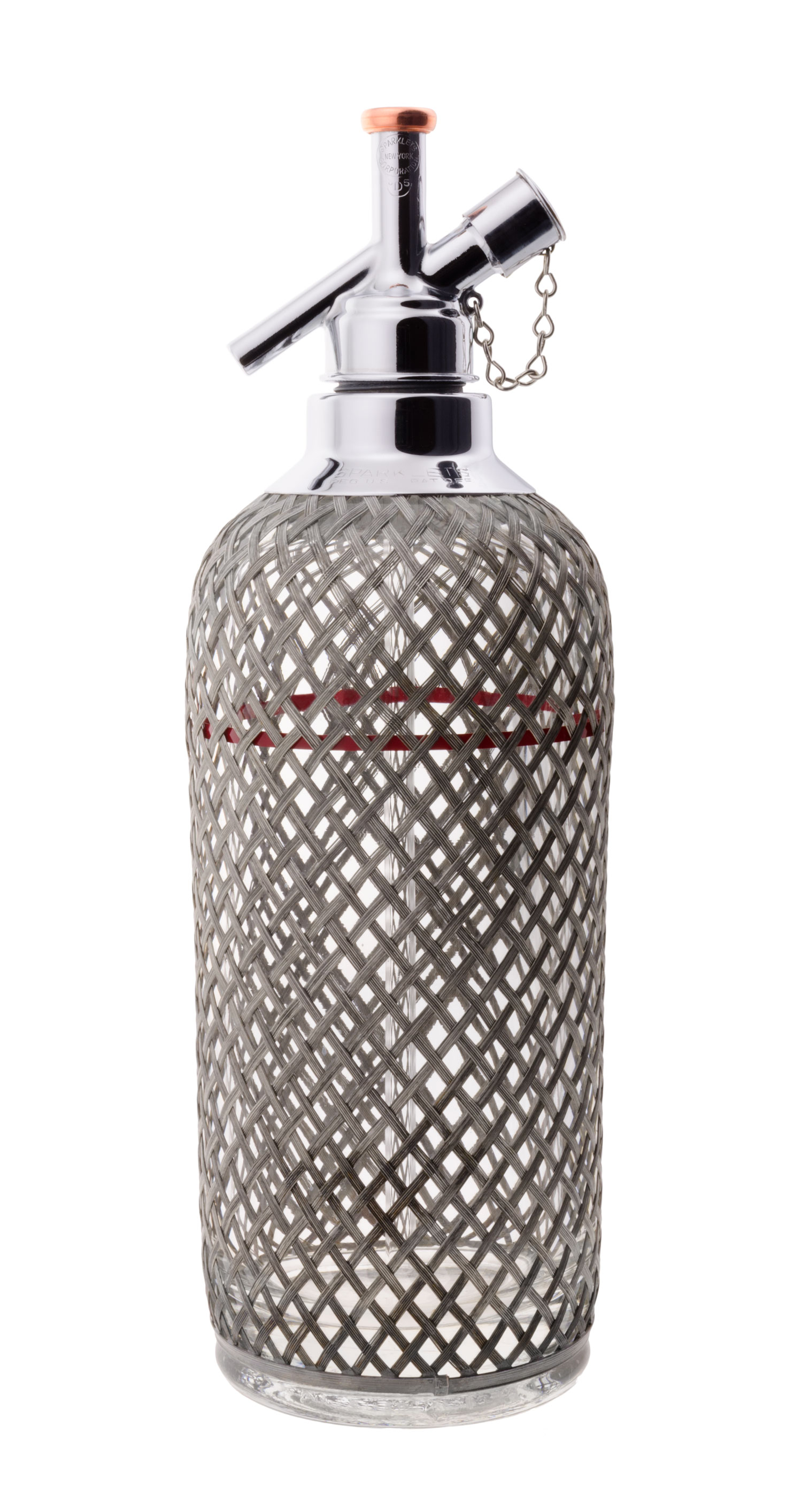 An original soda siphon made by the Sparklets New York Corporation at 305 46th St, NY around 1930. Hand restored by Die Siphon Manufaktur around 2013.